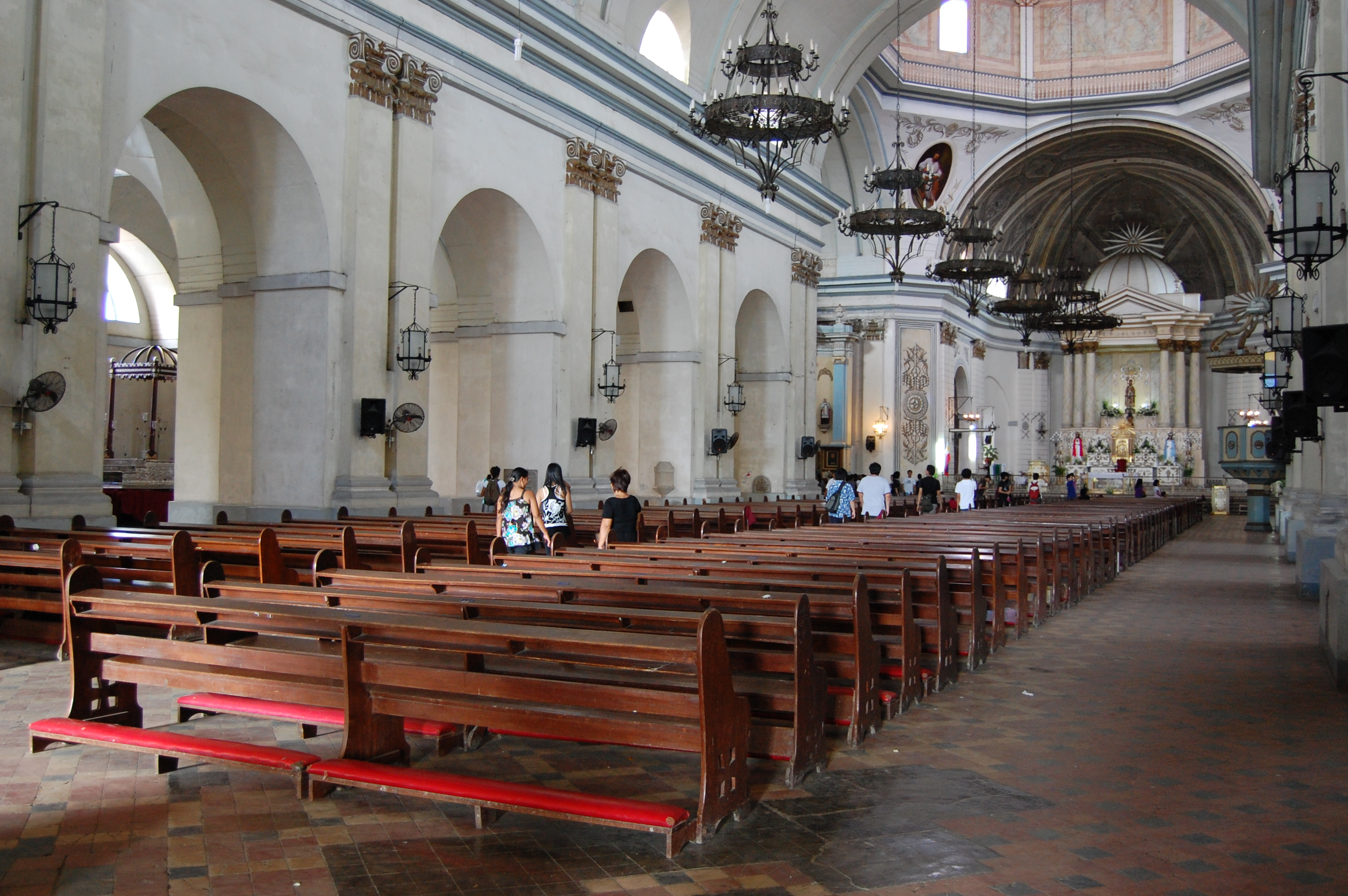 Nave of Taal Basilica prior to its renovation